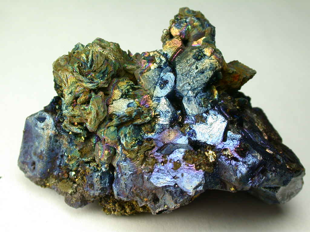 Marcasite, Galena Locality: Nikolaevskiy Mine, Dal'negorsk (Dalnegorsk; Tetyukhe; Tjetjuche; Tetjuche), Kavalerovo Mining District, Primorskiy Kray, Far-Eastern Region, Russia (Locality at ) Original description: A 6.1 by 4.3 cms mass of irridescent pale brass yellow crystals of Marcasite on irridescent Galena crystals. JSS specimen and photo.